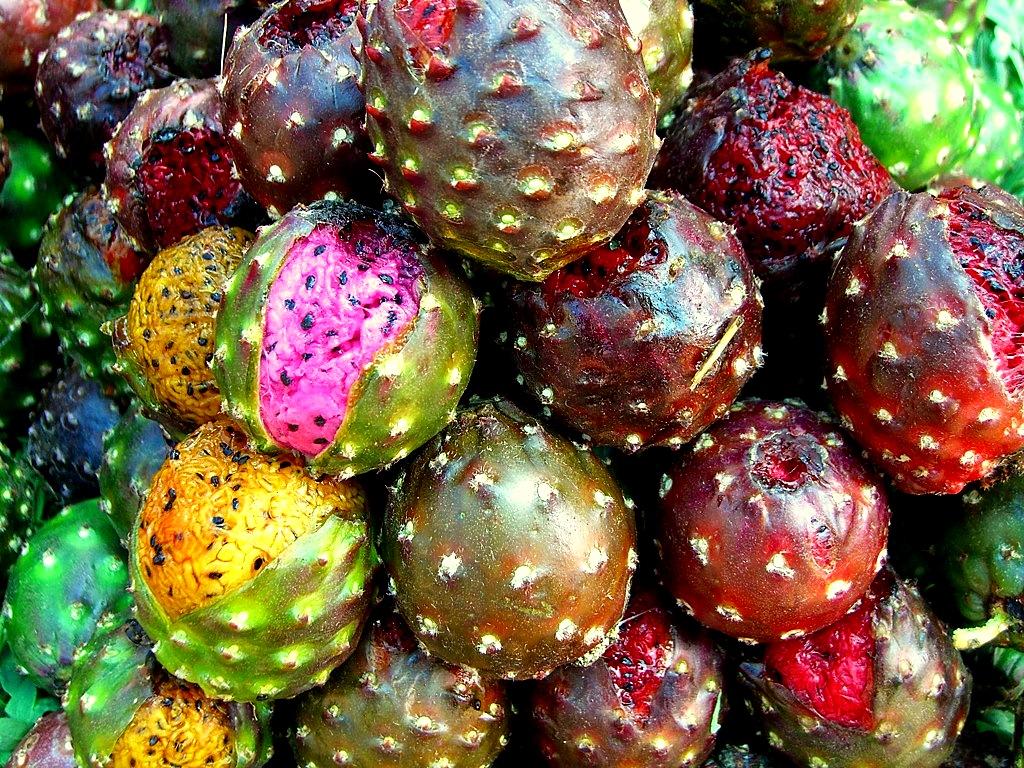 I was wandering down a street in the Seattle district in Guadalajara when I came across a vendor seiing pitayas. They are the fruit of a Mexican cactus (Opuntia). They are apparently very hard to harvest, which makes the fact that they sell for $0.10 each almost criminal. They have a very delicate flavor and are best eaten raw. The little black dots, by the way, are seeds and not bugs! You can read more about it here.